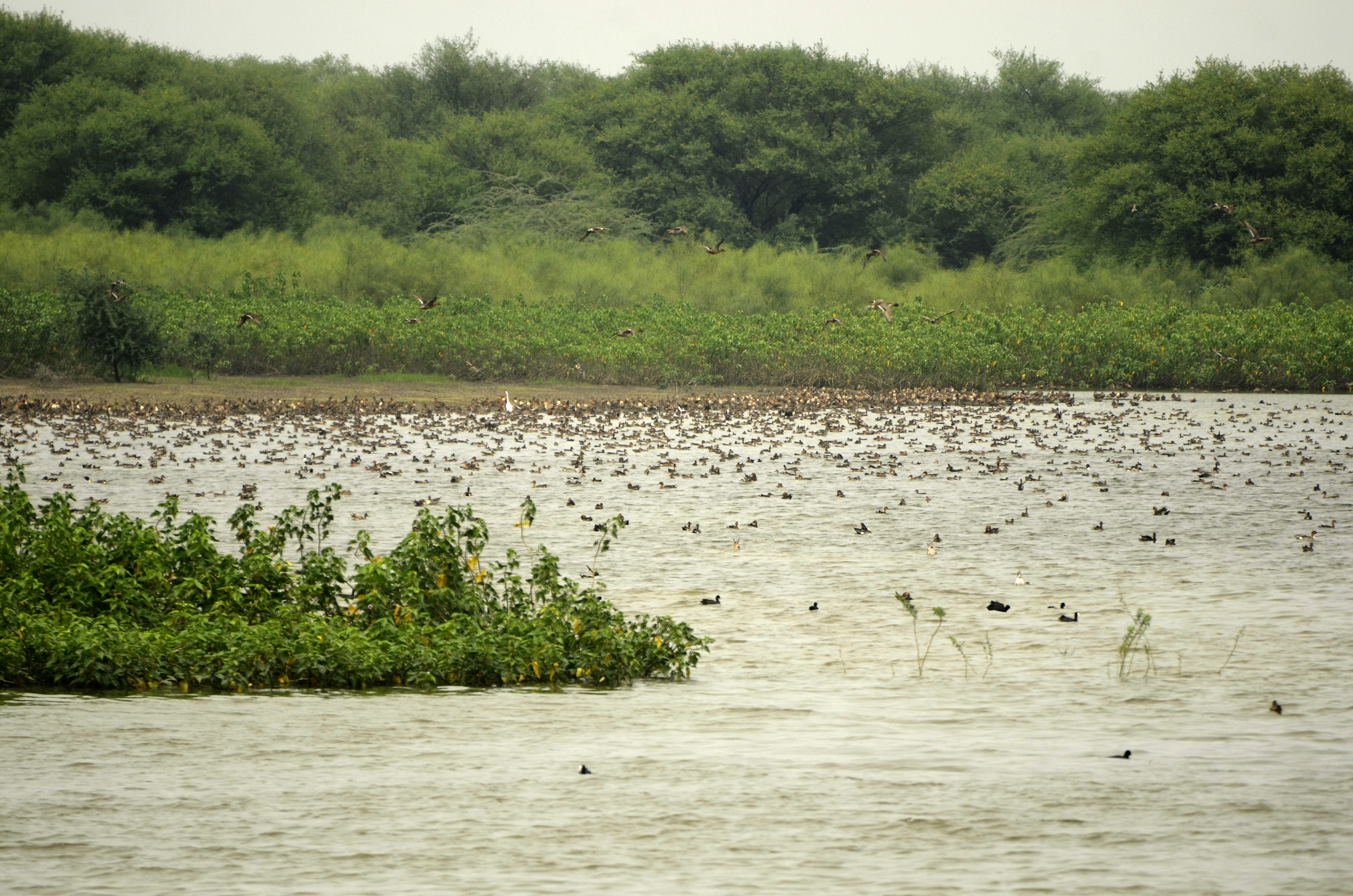 Waterfowls in_Karaivetti Bird Sanctuary_2